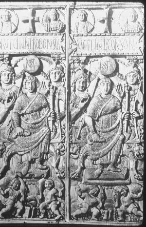 Consular diptych of Rufius Gennadius Probus Orestes